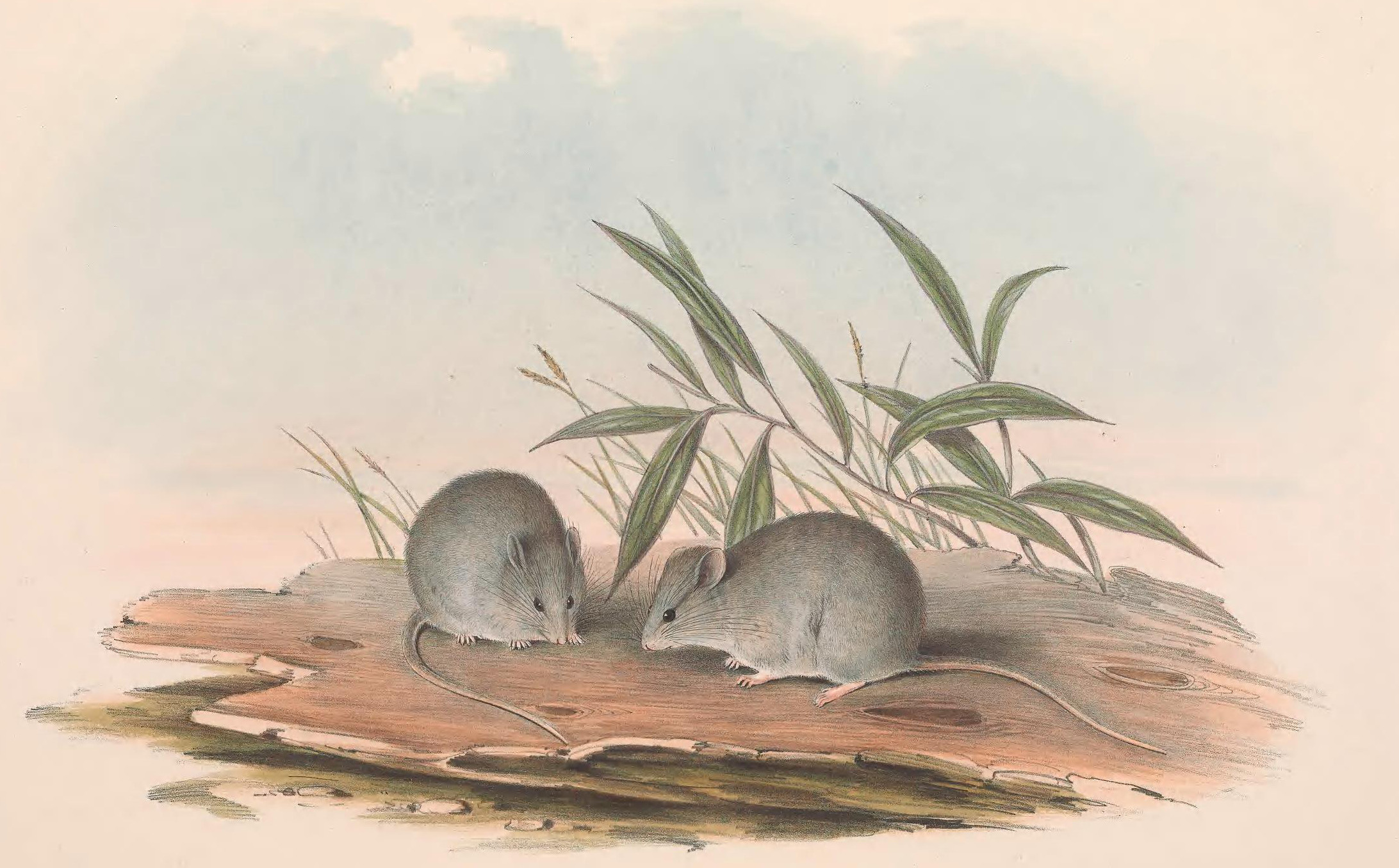 Plate in Gould's Mammals of Australia volume 3. The title is the caption in that work, and may be a synonym. The file was uploaded with the current name in the category, a crop and other adjustments were made to the image. The caption and other details were removed.